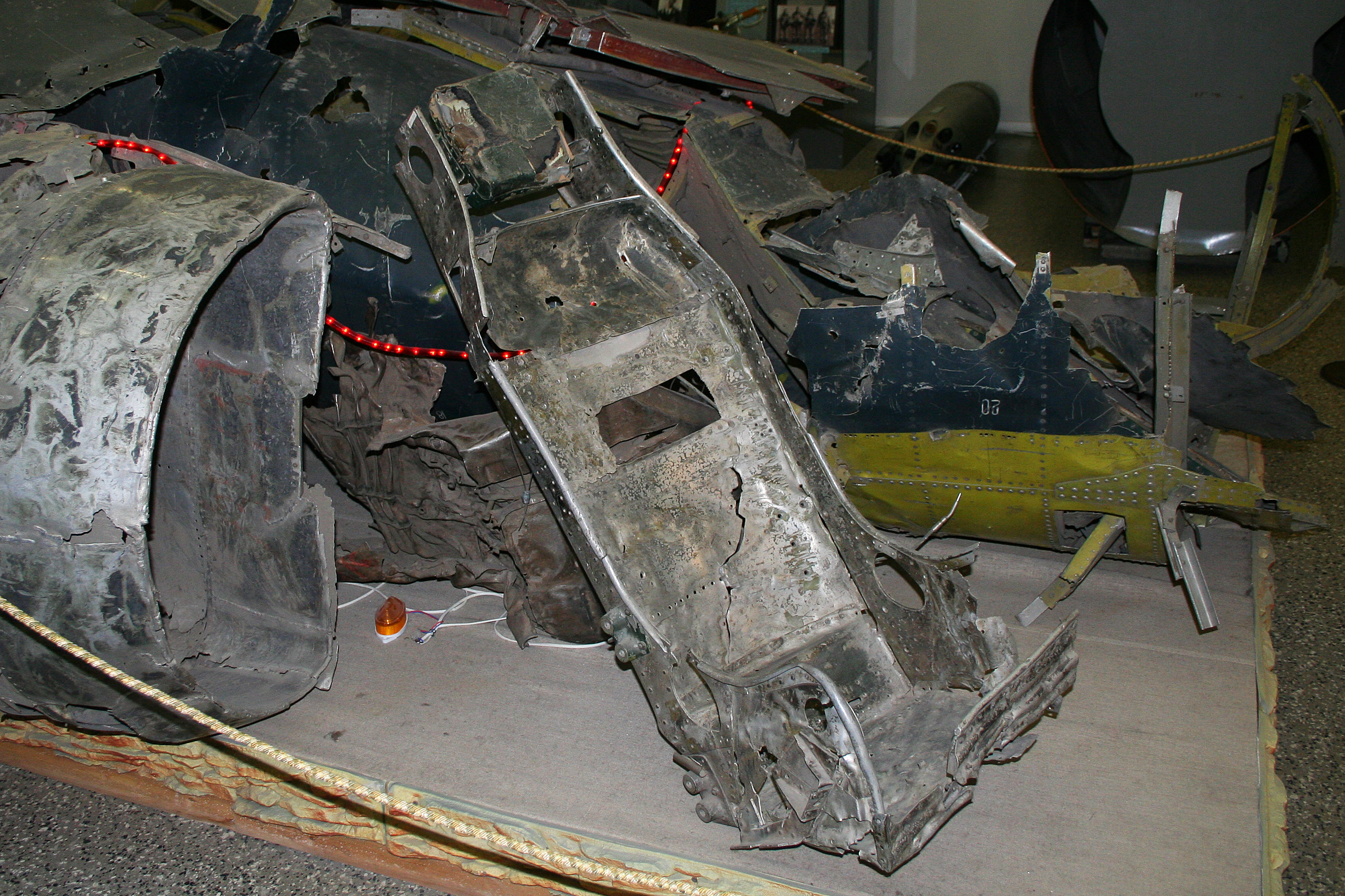 On 1st May 1960, civilian pilot Gary Powers flew a Lockheed U-2C from Pakistan on a reconnaissance mission over Russia for the CIA. He was famously shot down by an SA-2 surface to air missile. Less well known is that the missile that shot him down was the first of 8 fired. One of the other missiles actually shot down a Russian MiG-19 which was also trying to intercept Powers. Powers was finally returned to the West in a 'Spy-swap' in February 1962. The remains of his U-2 (s/n 56-6693, msn 360) are now on display in the Central Armed Forces Museum, Moscow, Russia. 15-8-2012